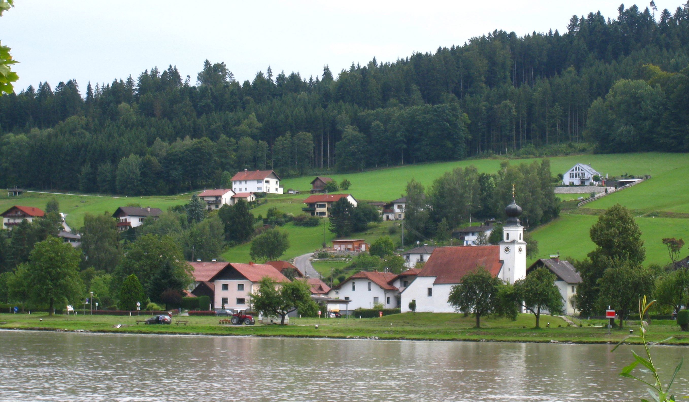 Pyrawang village view from north Danube bank